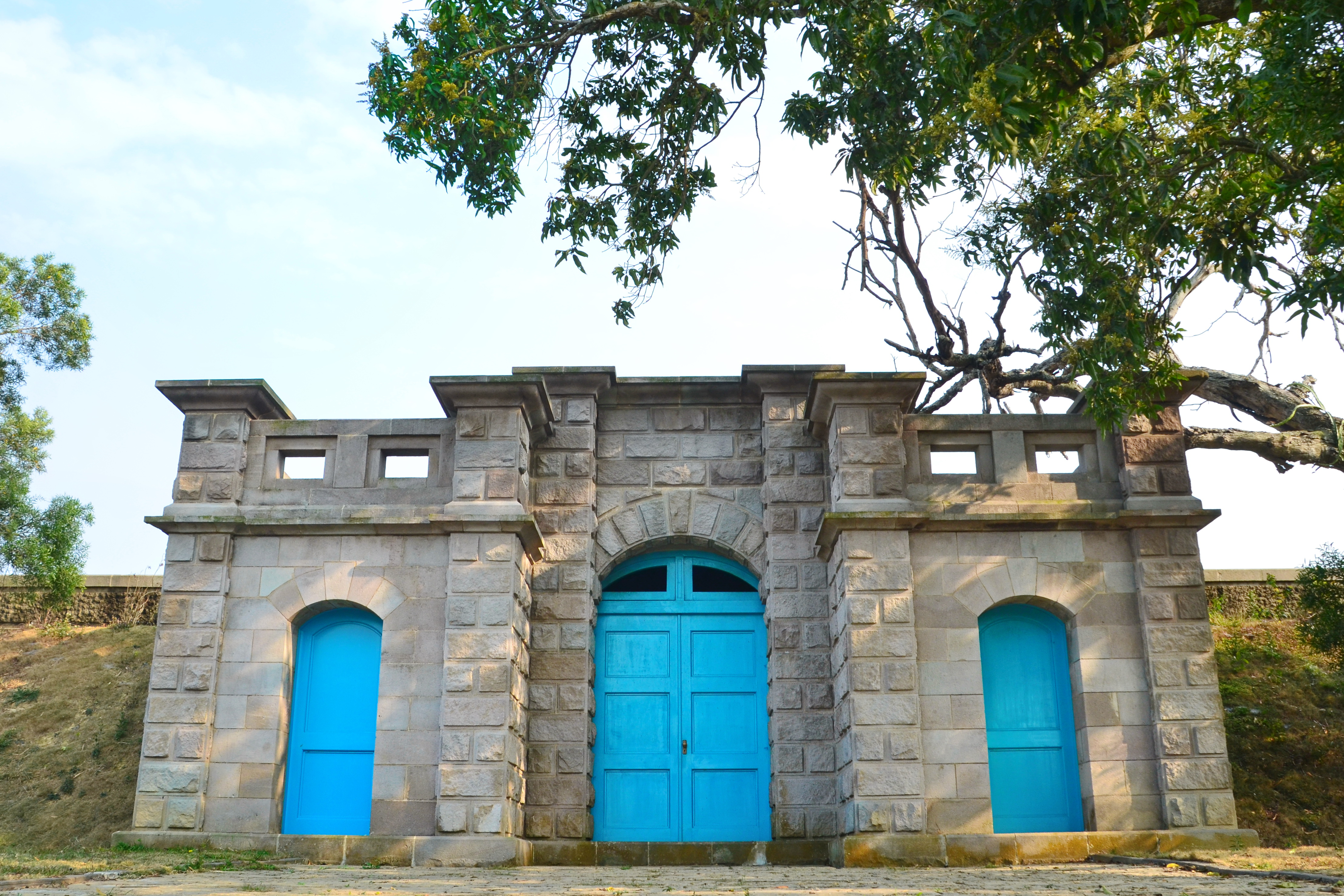 Shanshang Water Treatment Plant, Shanshang District, Tainan City, Taiwan.